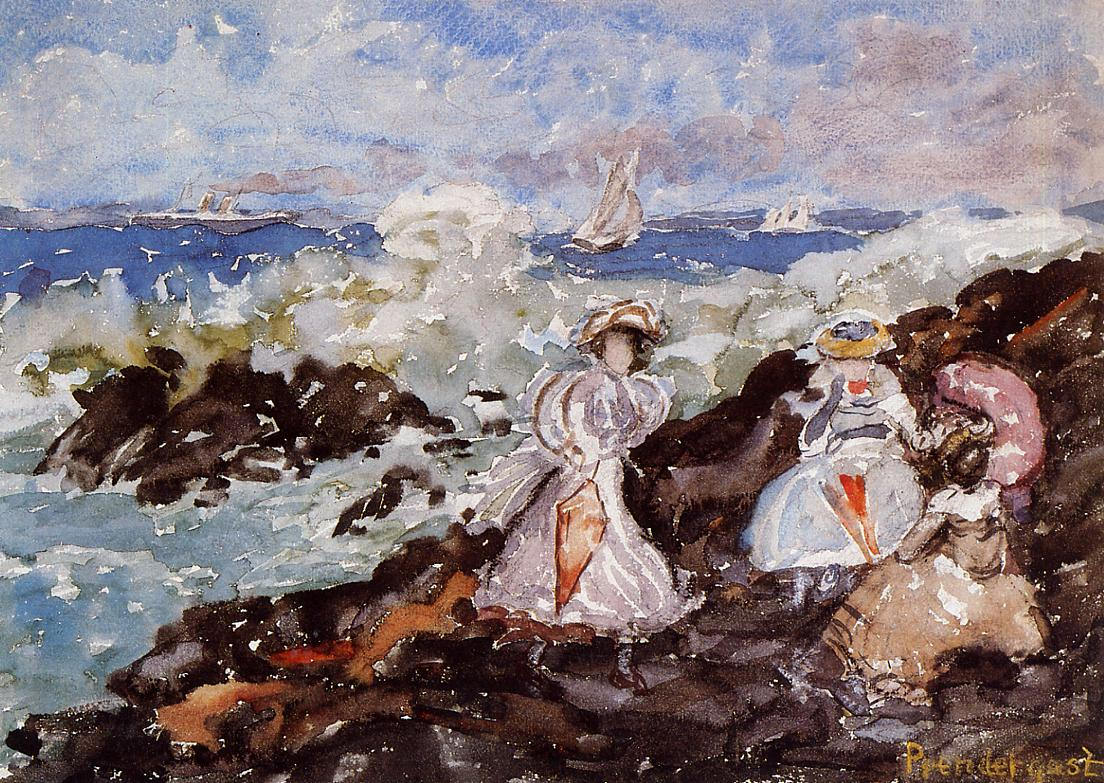 "Surf, Cohasset," by the American artist Maurice Prendergast. Watercolor.